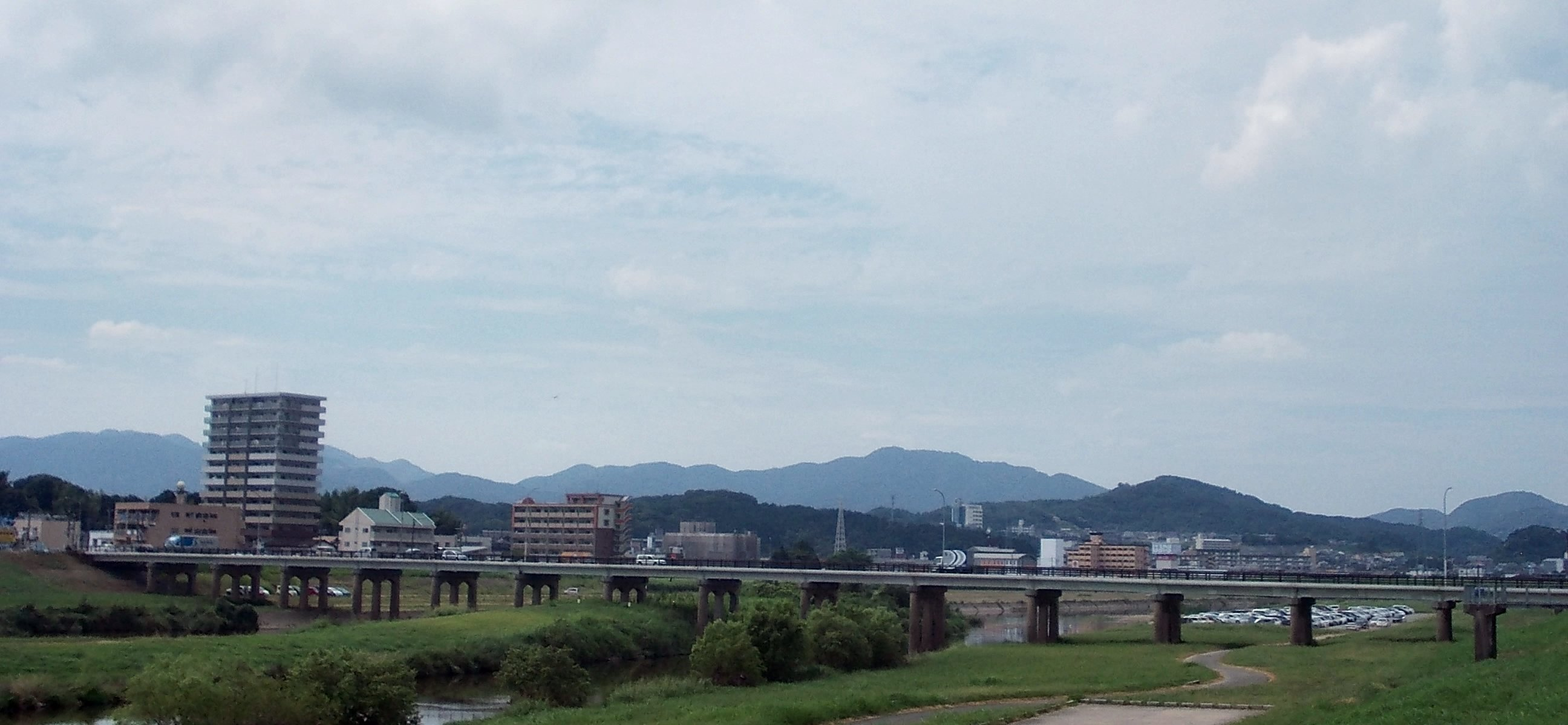 Shin-Iizuka Bridge, Iizuka, Fukuoka, Japan